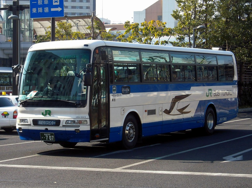 JR bus Tohoku Mitsubishi Fuso Aero Bus (KL-MS86MP)Highwaybus "Weliner"(Sendai-Niigata)